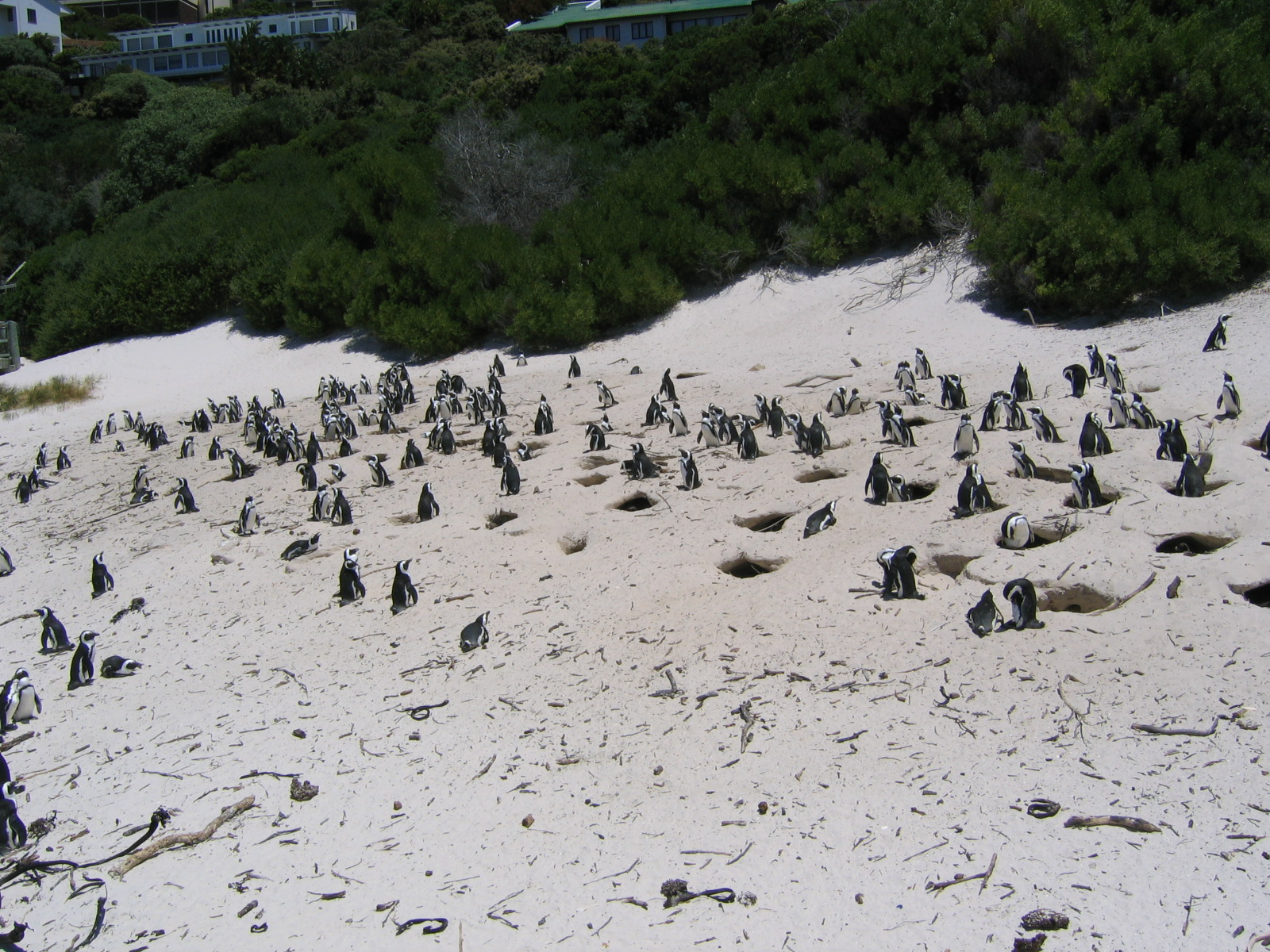 Penguins nesting at Boulders Beach, Simon's Town, Cape Town, South Africa.